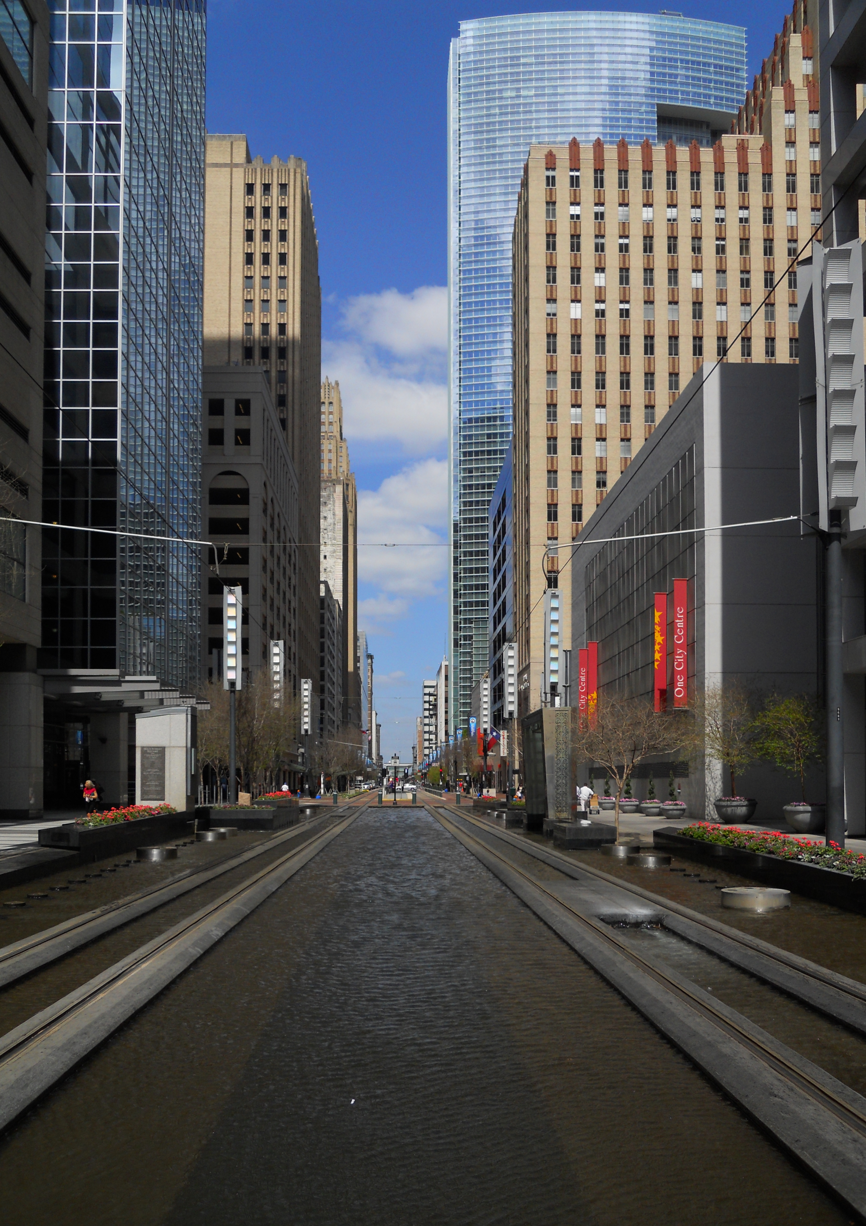 HOUSTON Downtown texas USA. View from the Lamar Street heading to NNE, the Main Street